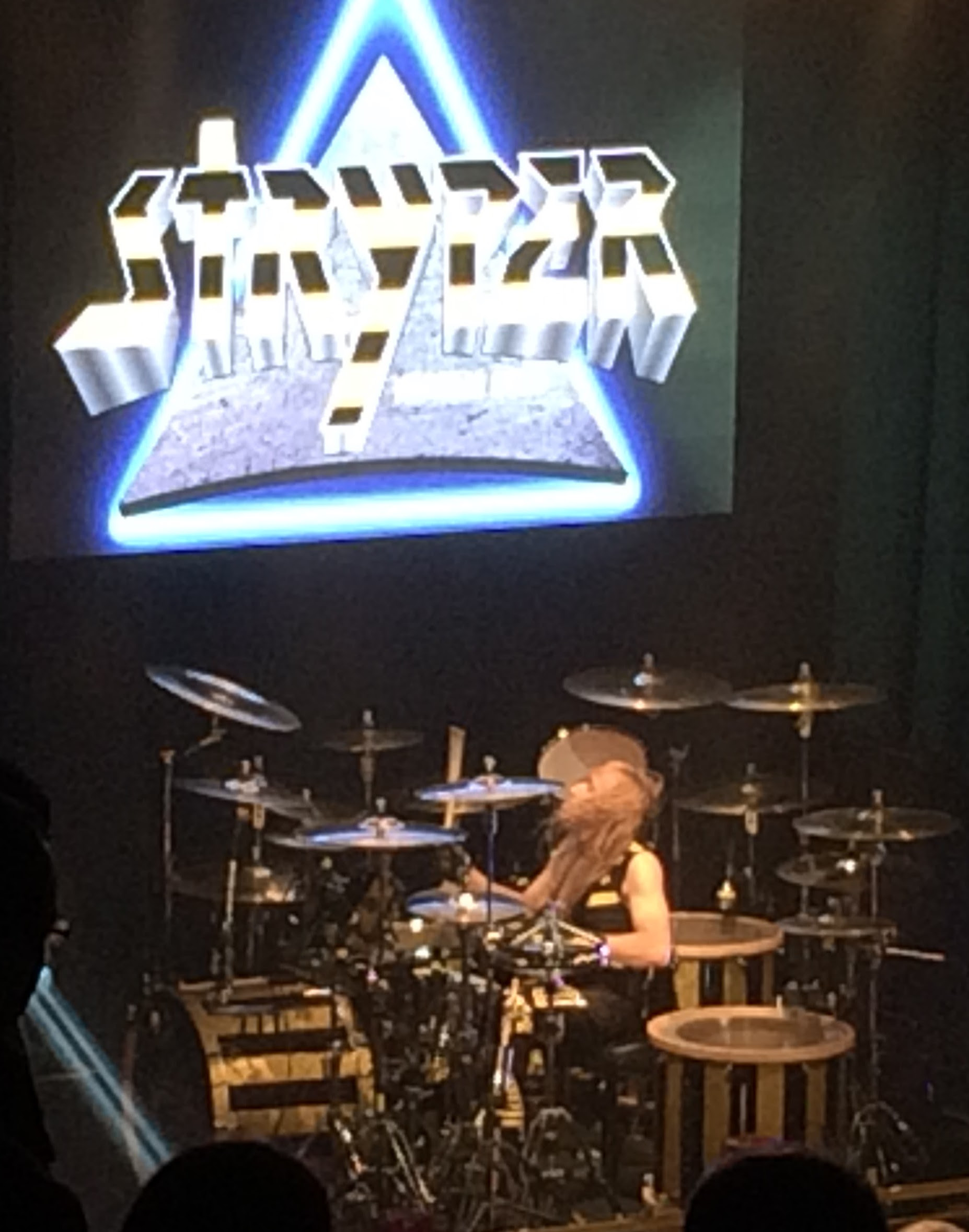 Robert Sweet performs at House of Blues, Orlando, FL, on Friday, September 30, 2016.